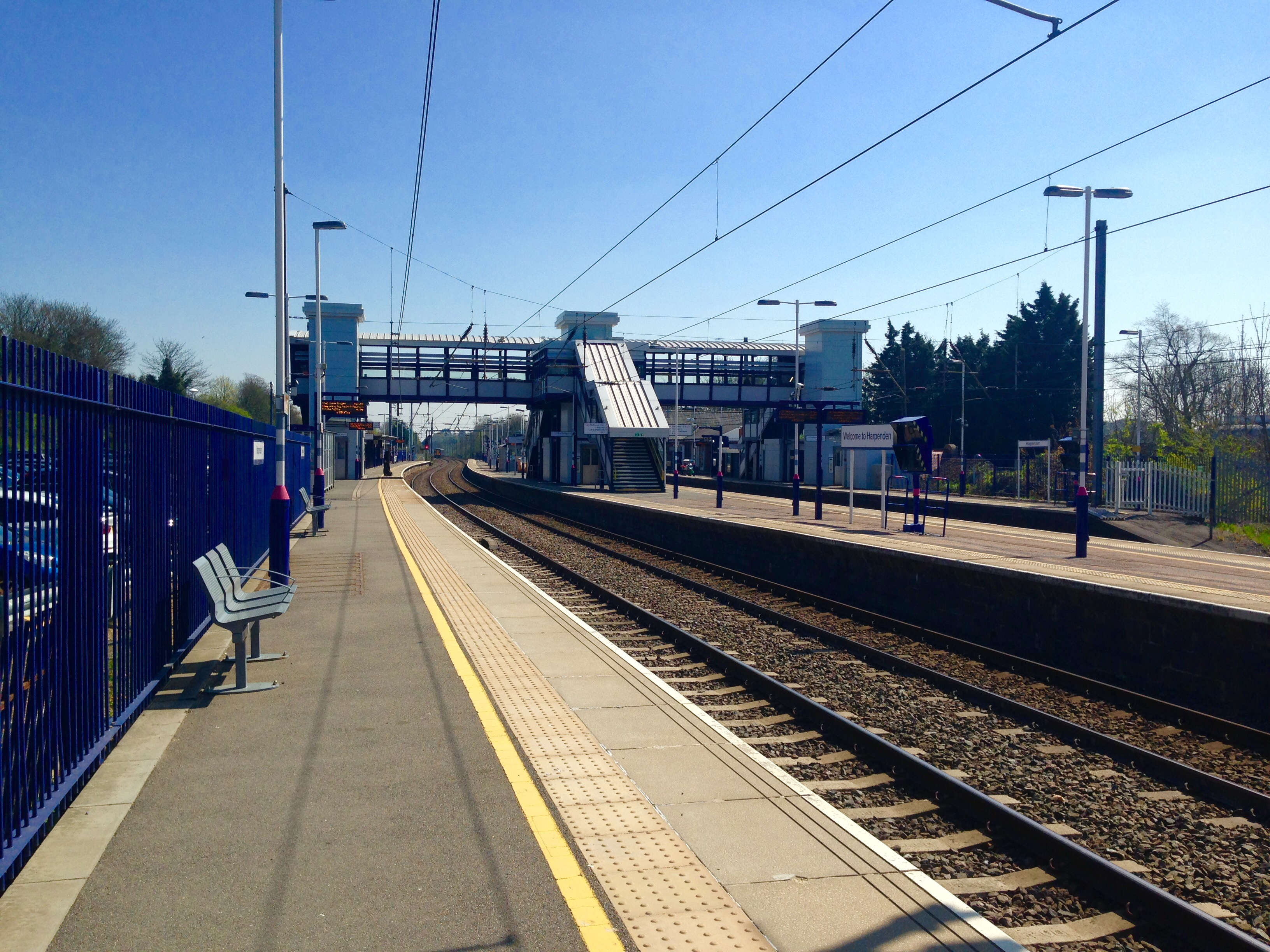 Harpenden Train Station from platform 1 southbound